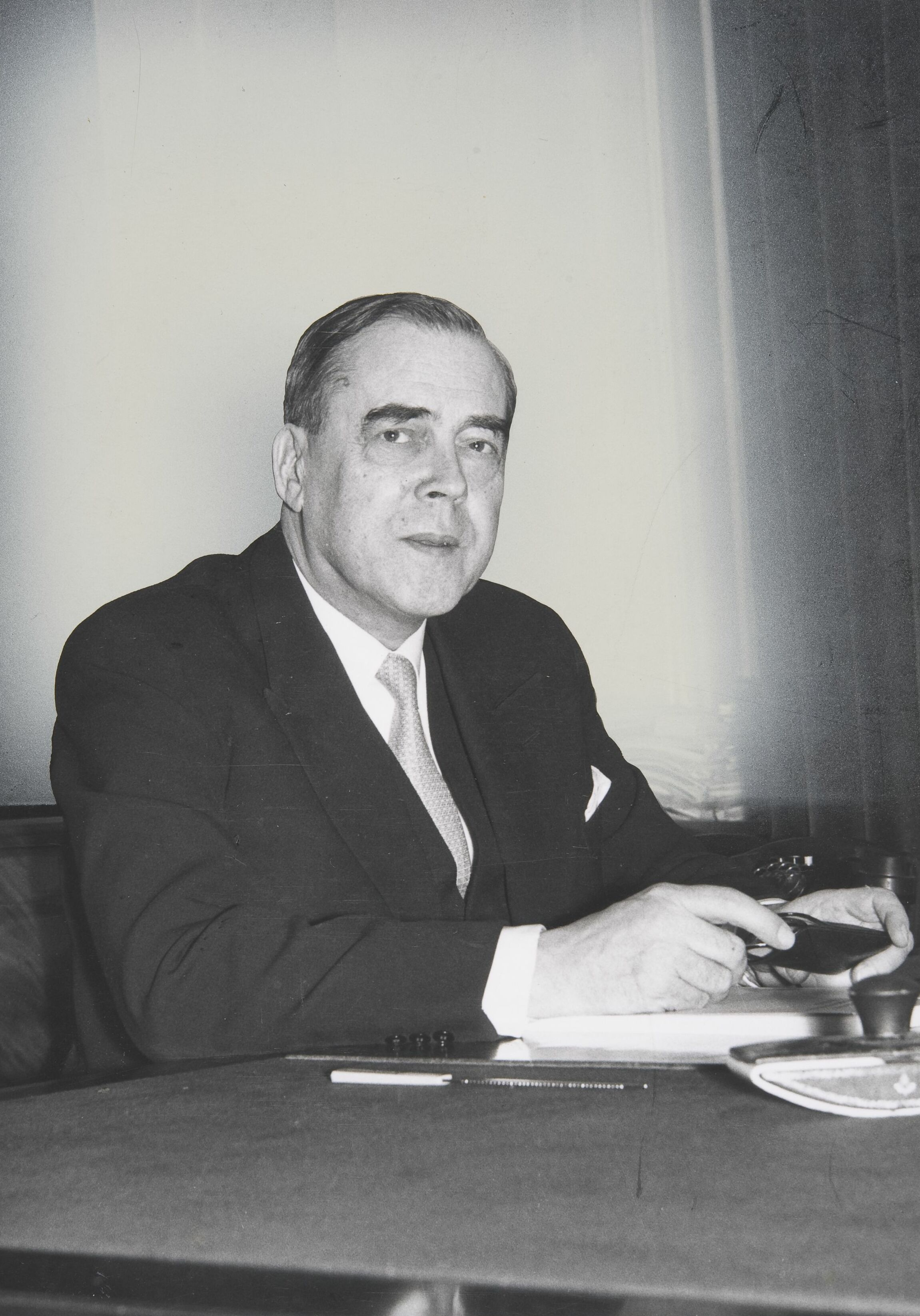 Photograph of the Finnish politician Ralf Törngren (1899–1961)